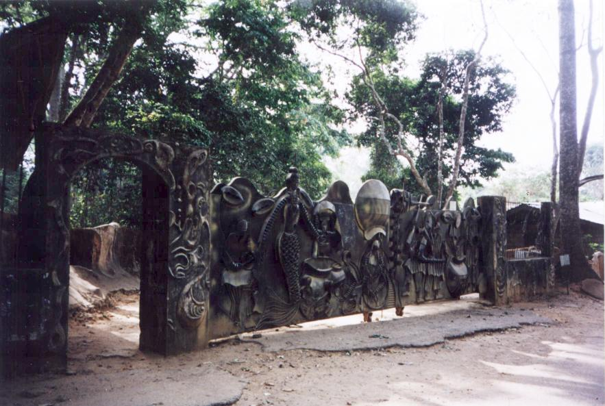 Temple of Osun in Osogbo - Osun state - Nigeria - Africa